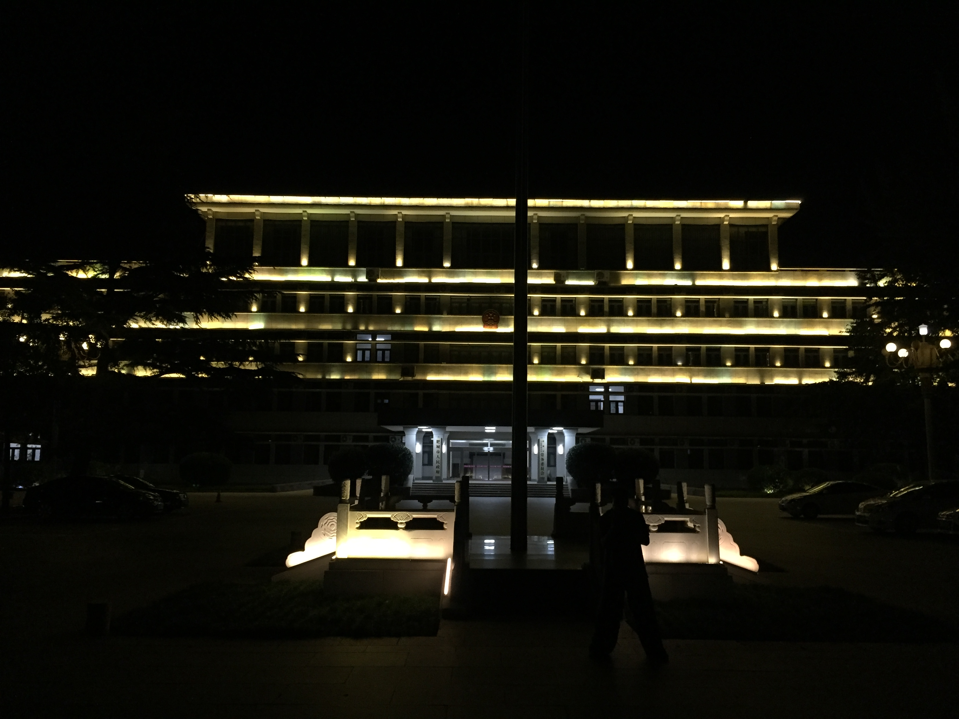 People's Government of Feicheng City